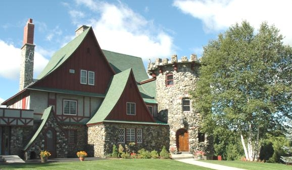 Christopher Dunlap Perth Andover NB